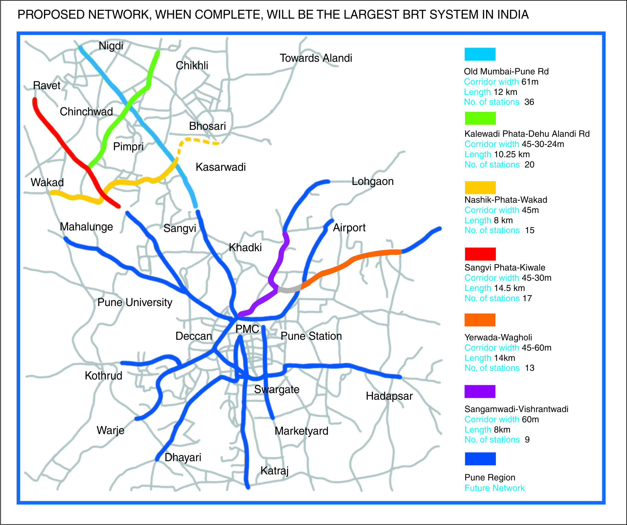 Brt corridor map english taken from